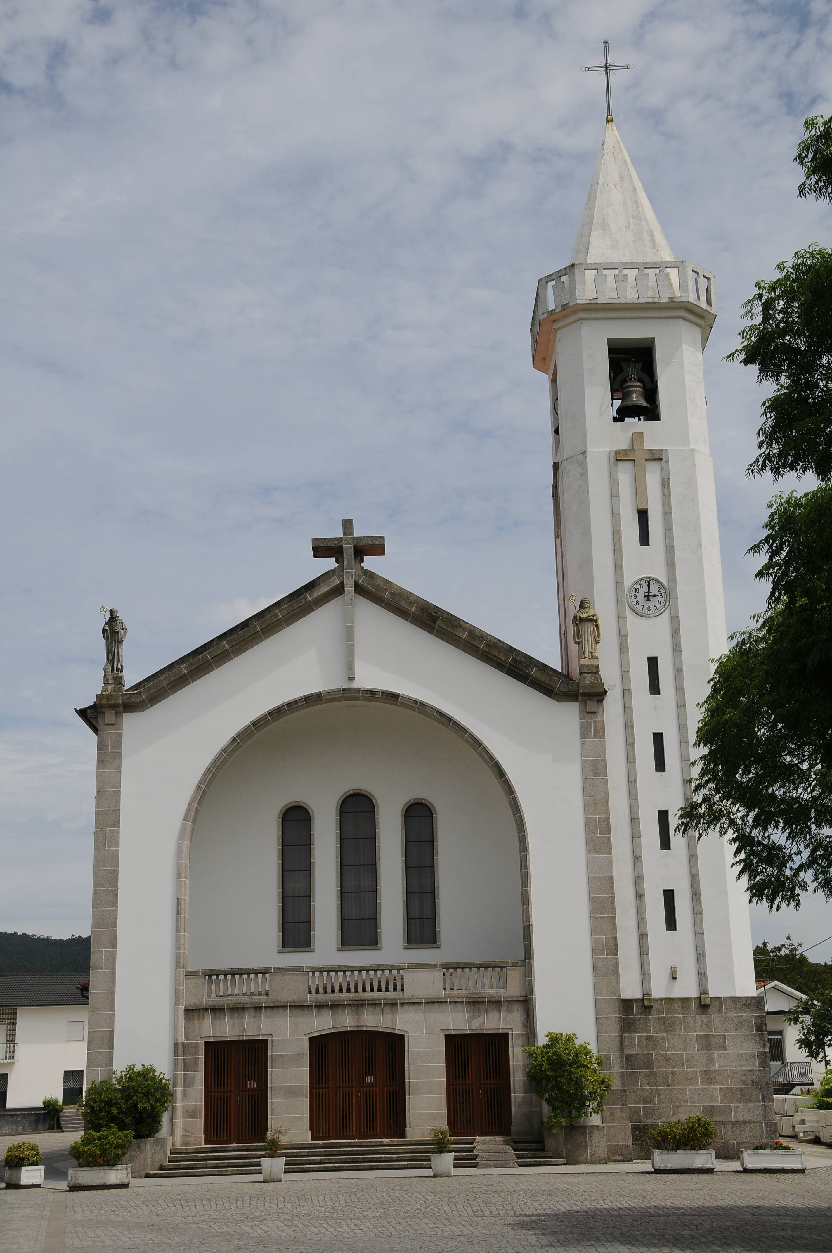 Varzea Church, in Varzea, Barcelos, Portugal